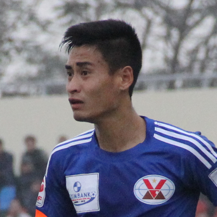 Vũ Minh Tuấn biểu tượng bóng đá mới của bóng đá Quảng Ninh